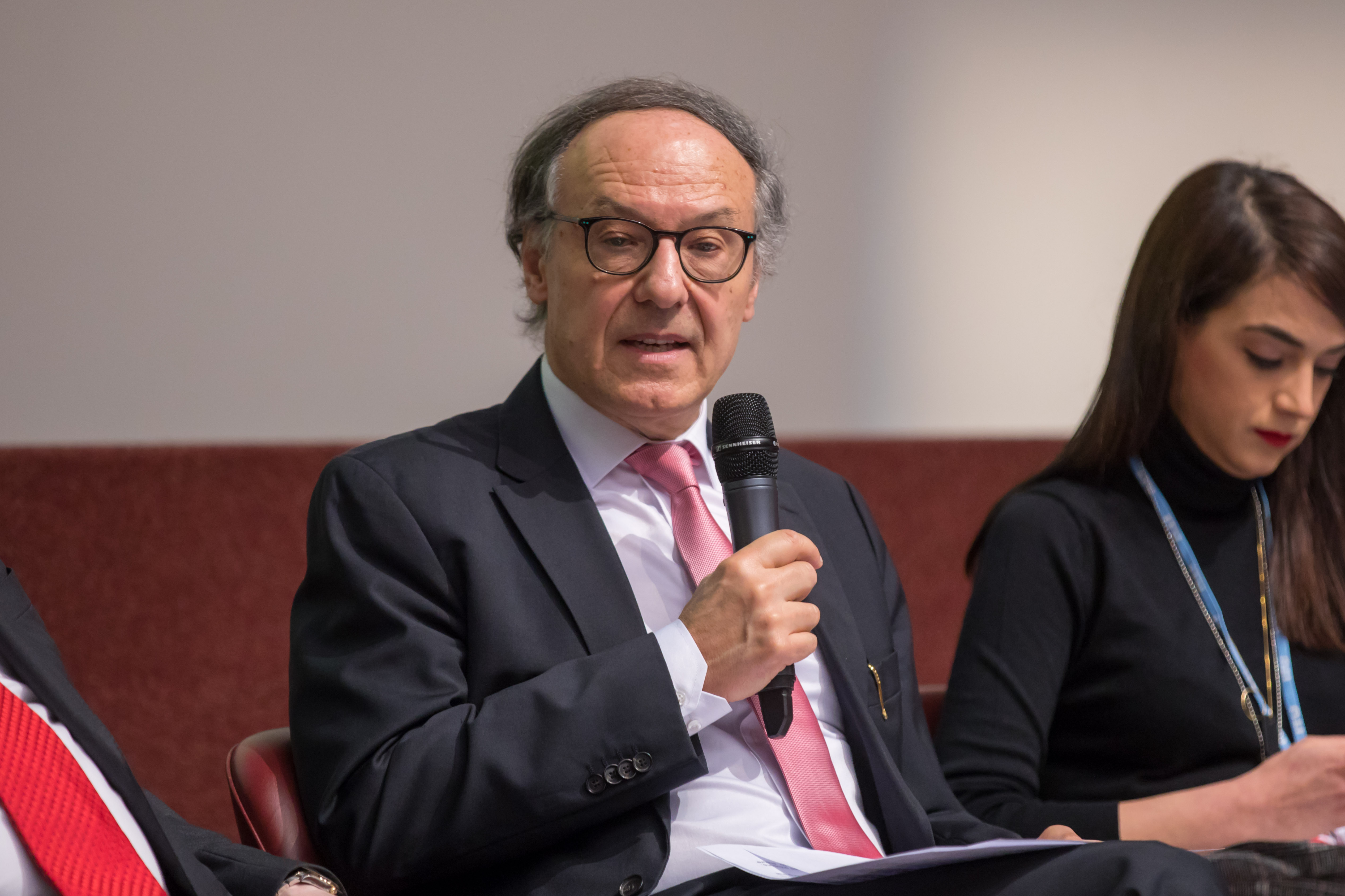 Moderated High-Level Policy Session 10: Inclusiveness – access to information and knowledge for all Speaking: Prof. Yves Flückiger, Rector, University of Geneva ©ITU/R.Farrell